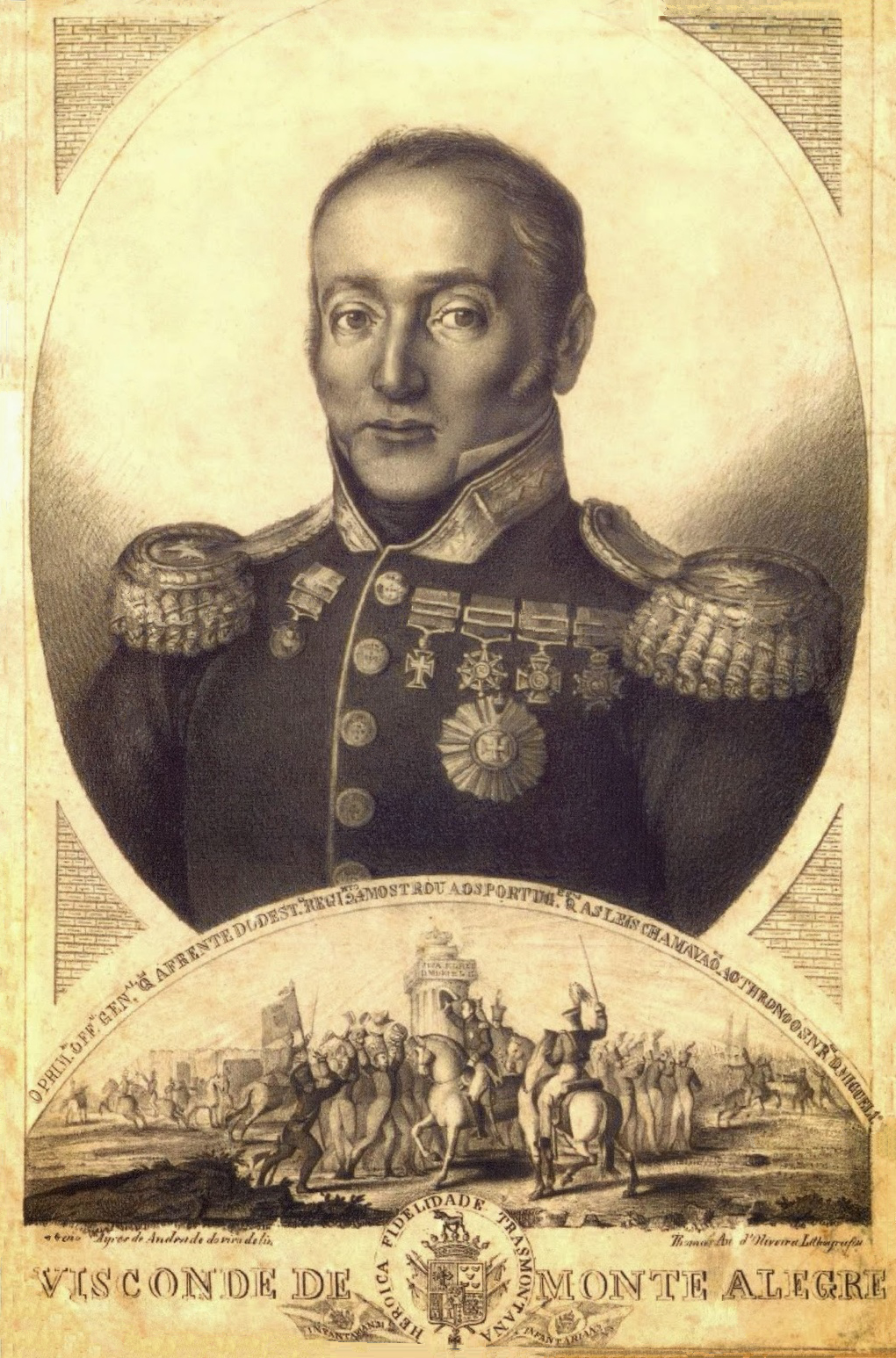 Luís Vaz Pereira Pinto Guedes, 2nd Viscount of Montalegre (1770-1841), in a contemporary engraving.